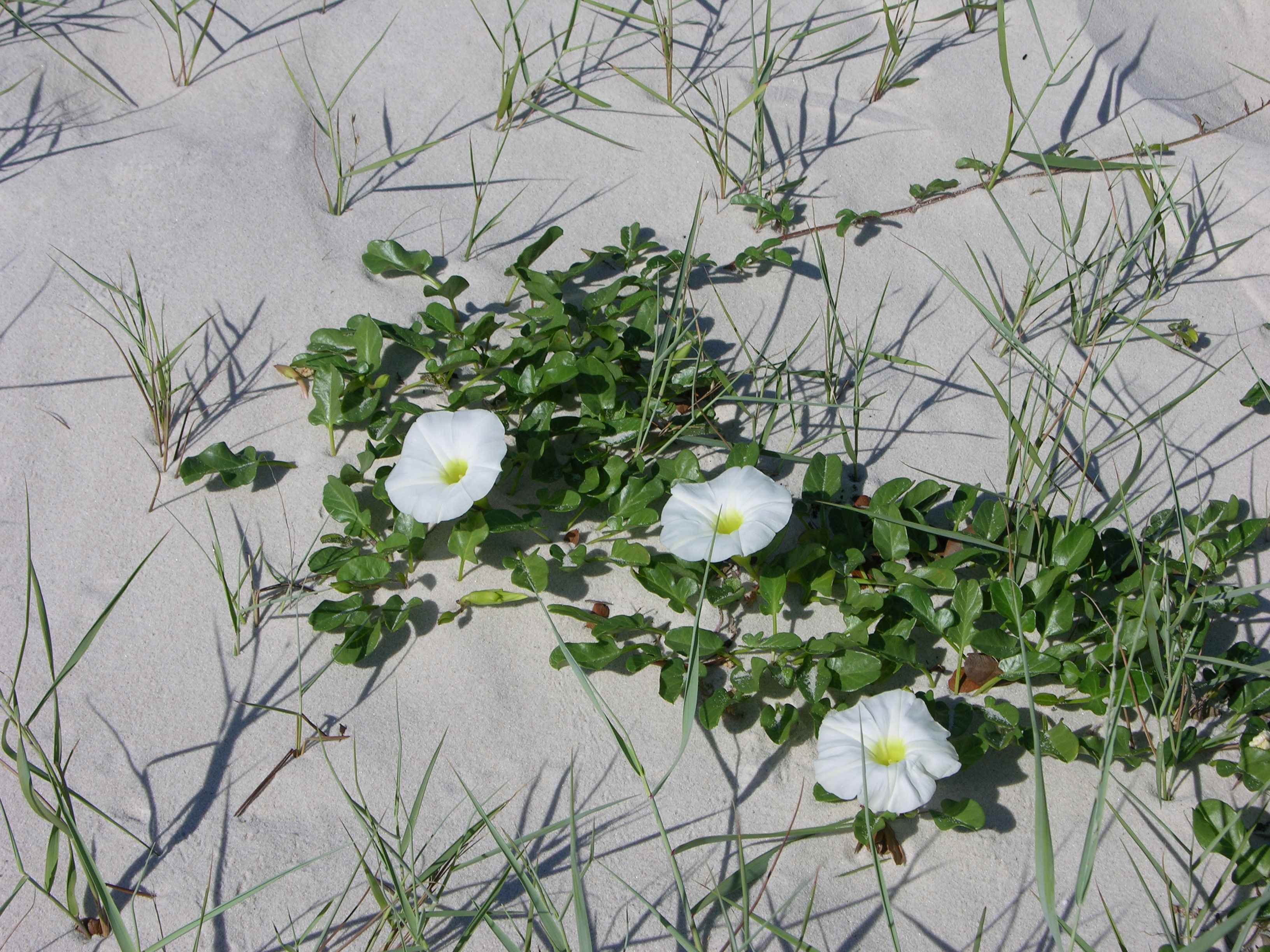 Image title: Morning glory at the beach flowering white flowers Image from Public domain images website